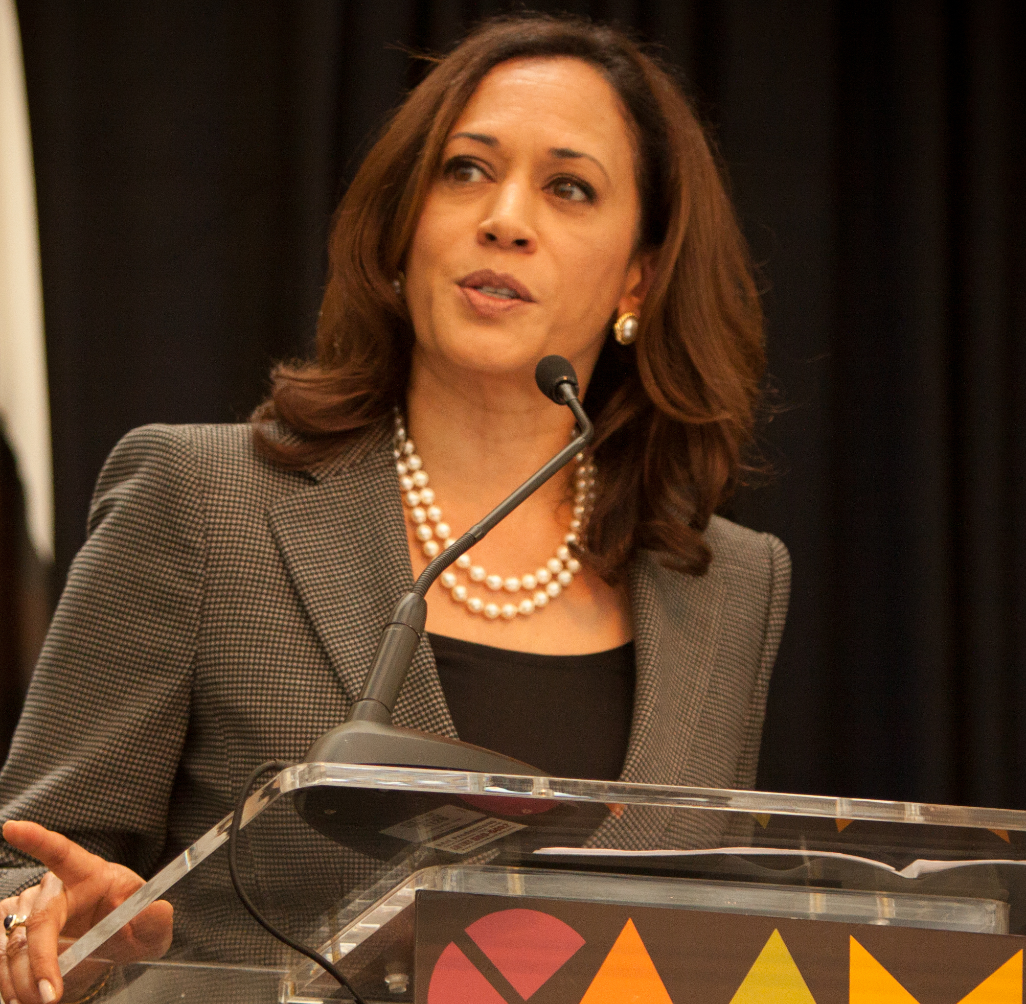 Attorney General Kamala D. Harris Delivers Remarks on 50th Anniversary of the Signing of the Civil Rights Act in Los Angeles on June 30, 2014.